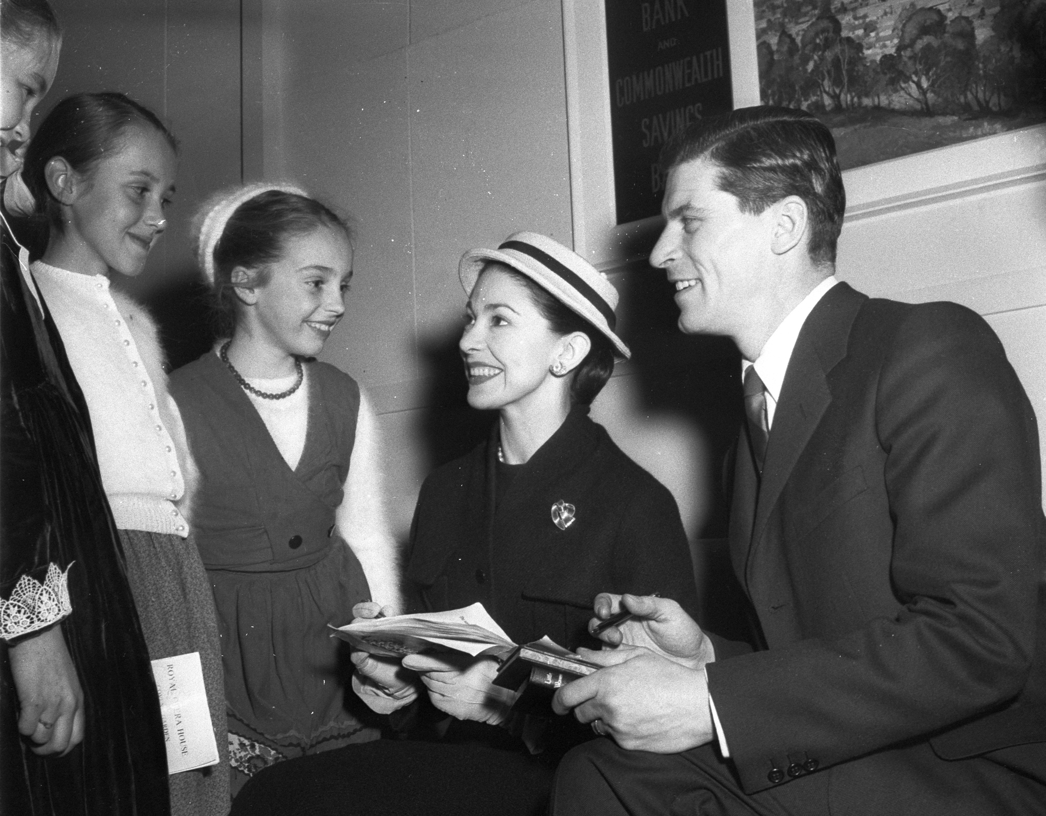 Format: Photonegative Find more detailed information about this photograph: .au/item/itemLarge.aspx?itemID=73990 Search for more great images in the State Library's collections: .au/search/SimpleSearch.aspx From the collection of the State Library of New South Wales